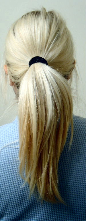 Blonde Pony tail 077 sec (1/13) Aperture: f/2.8 Focal Length: 8 mm ISO Speed: 100 Exposure Bias: 0/10 EV Orientation: Norma X-Resolution: 72 dpi; Y-Resolution: 72 dpi Software: ImageMixer YCbCr Positioning: Co-Sited Exposure Program: Normal Compressed Bits per Pixel: 4 bits Maximum Lens Aperture: 48/16 Metering Mode: Pattern Light Source: Tungsten (incandescent light) Color Space: sRGB Custom Rendered: 1 White Balance: Manual